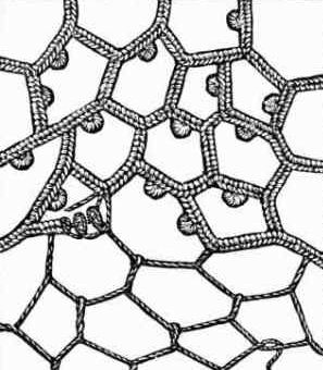 Picots or nibs, used in Branscombe tape lace